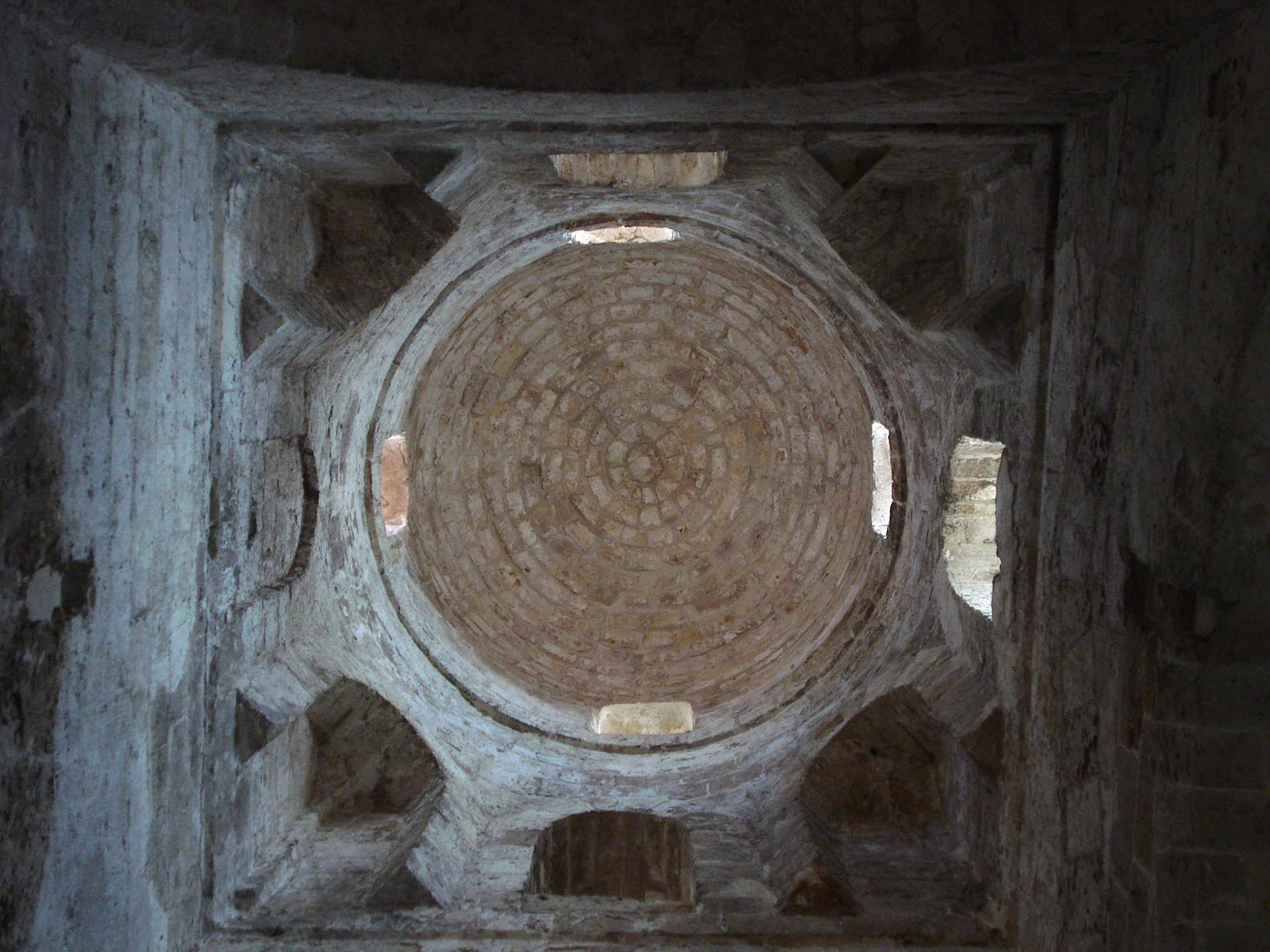 Main cupola